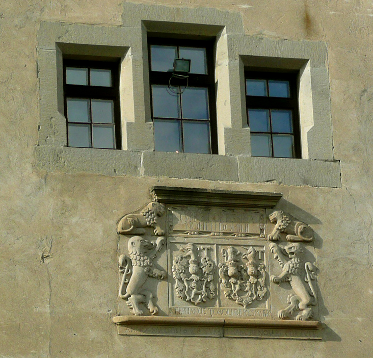 Gate of the Kezmarok castle - HERMANUS TOKOLI DE KESMARK